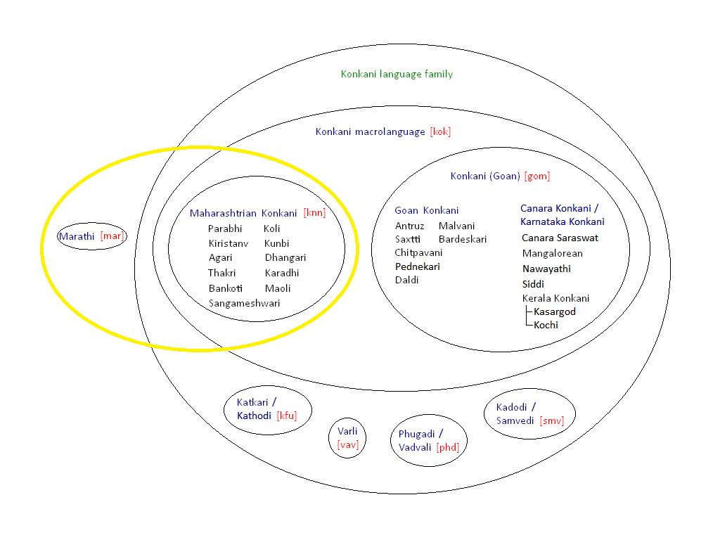 A Venn diagram of the various languages and dialects in the Konkani family, according to the ISO 639 classification. In red brackets are the ISO 639 codes. Some linguists consider the dialects of Maharashtrian Konkani to be a part of Marathi, hence a yellow line around these two.